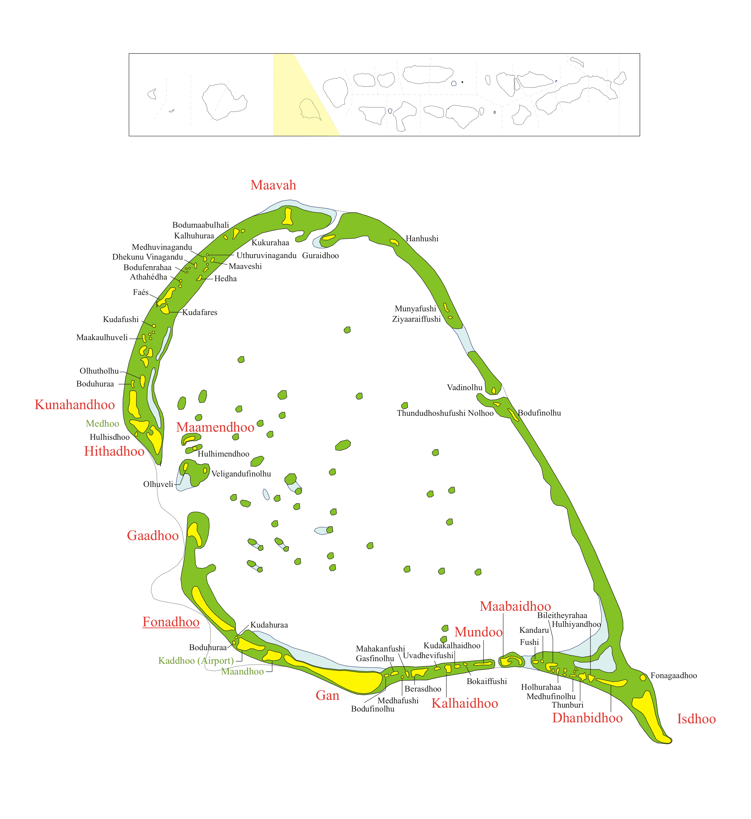 Map of Laamu Atoll, also Haddhunmathi Atoll